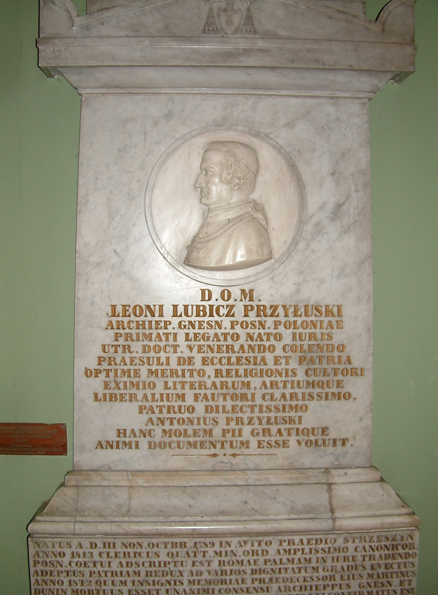 Epitaph of archbishop Leon Przyłuski in Poznań Archcathedral Basilica of St Peter and St. Paul